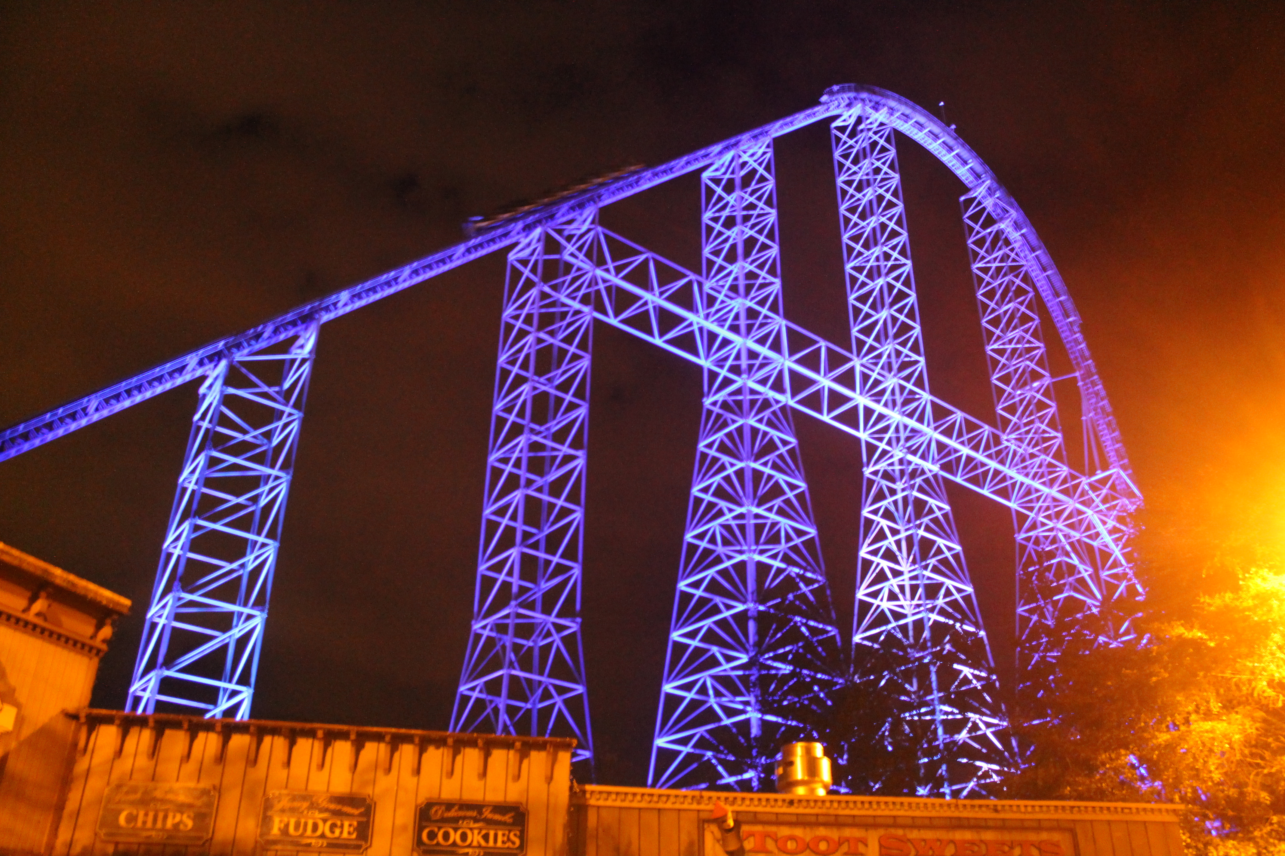 A farewell summer trip to Cedar Point (Sandusky, OH) with Ivy and Dan. The best roller coasters with no lines, amazing fun times, and apple picking the next day en route back! We had a blast in the Midwest.